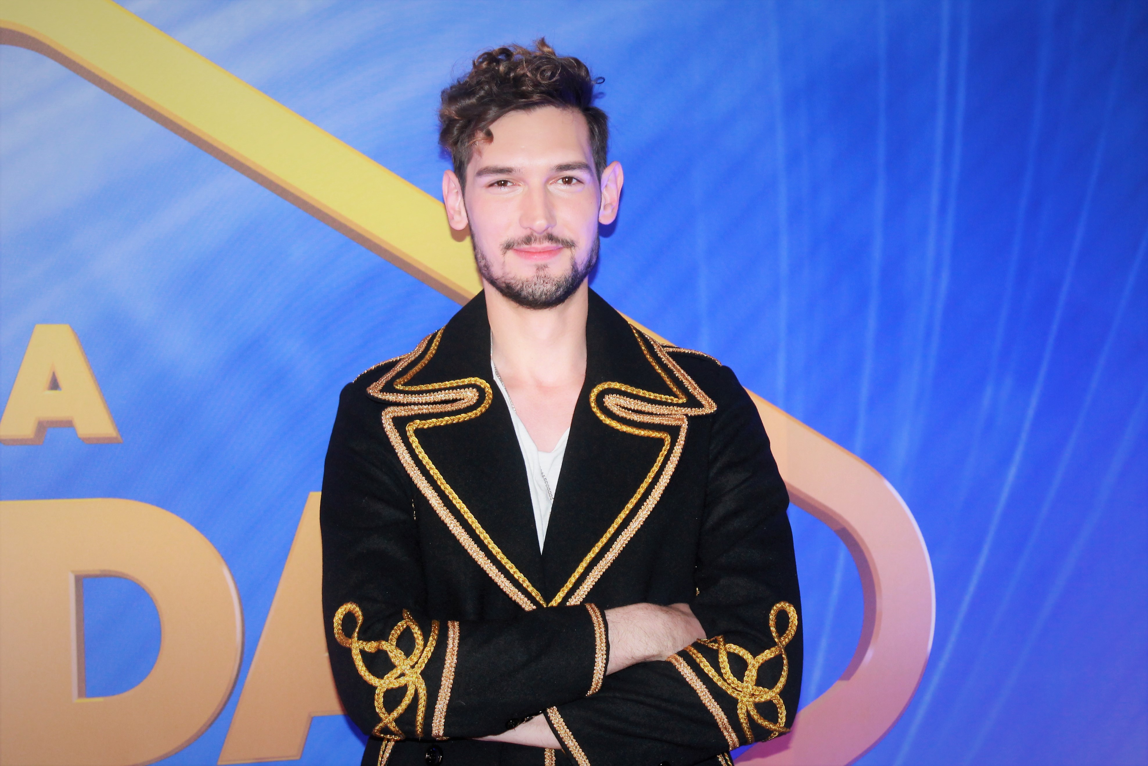 A Dal 2019 participant: Gergő Szekér